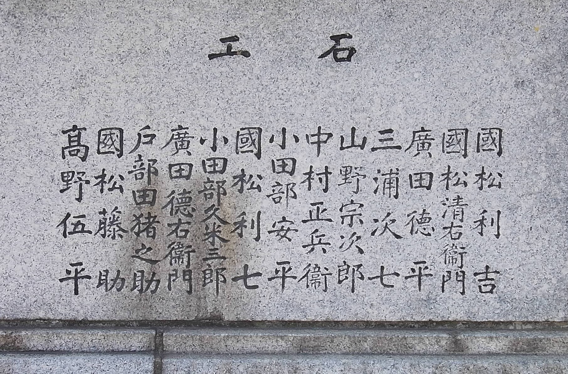 Names of stone-cutters who worked on the statue of Emperor Kameyama. Azuma Park, Fukuoka city.